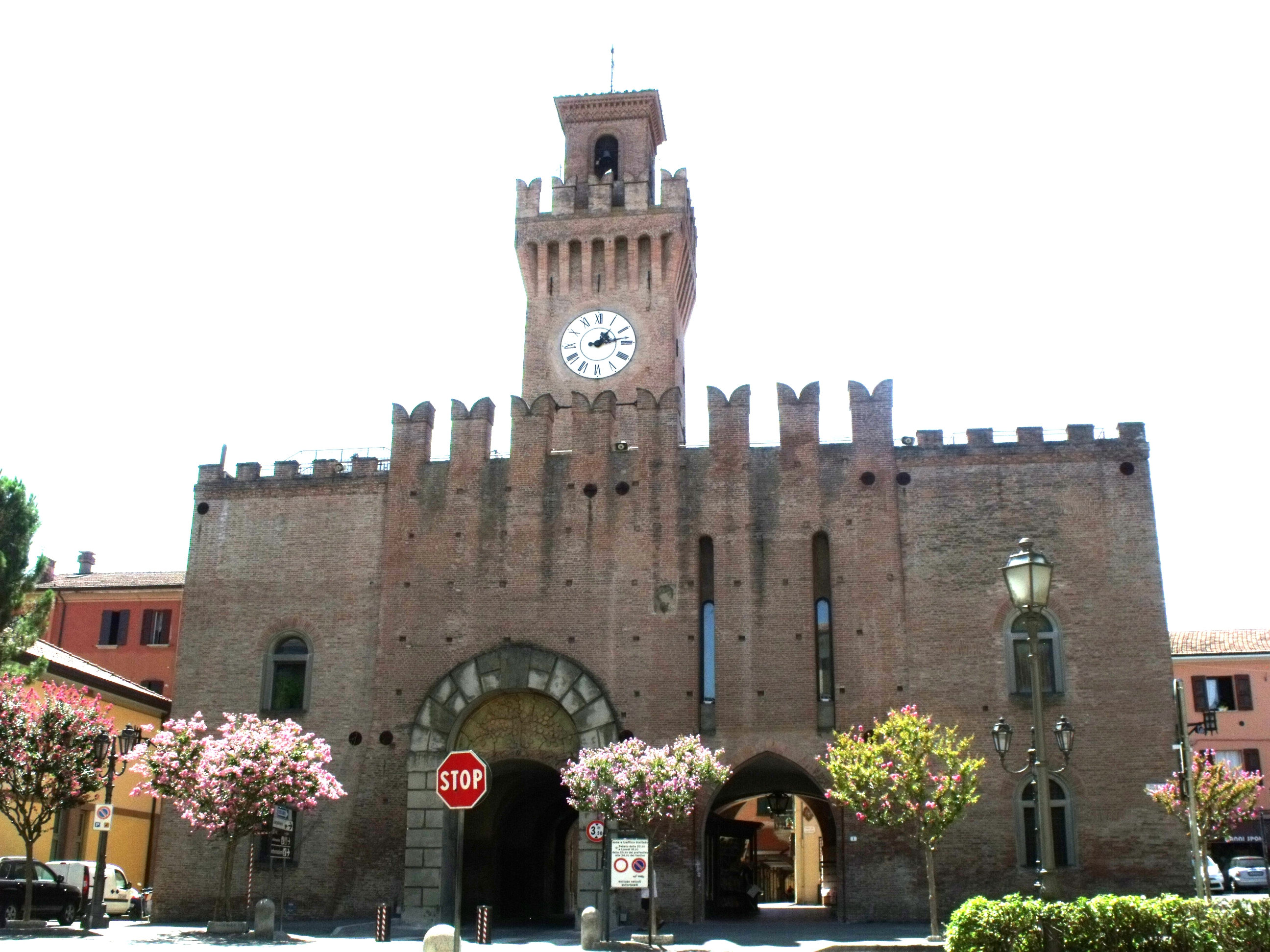 Cassero in Castel San Pietro Terme, Province of Bologna, Emilia-Romagna, Italy